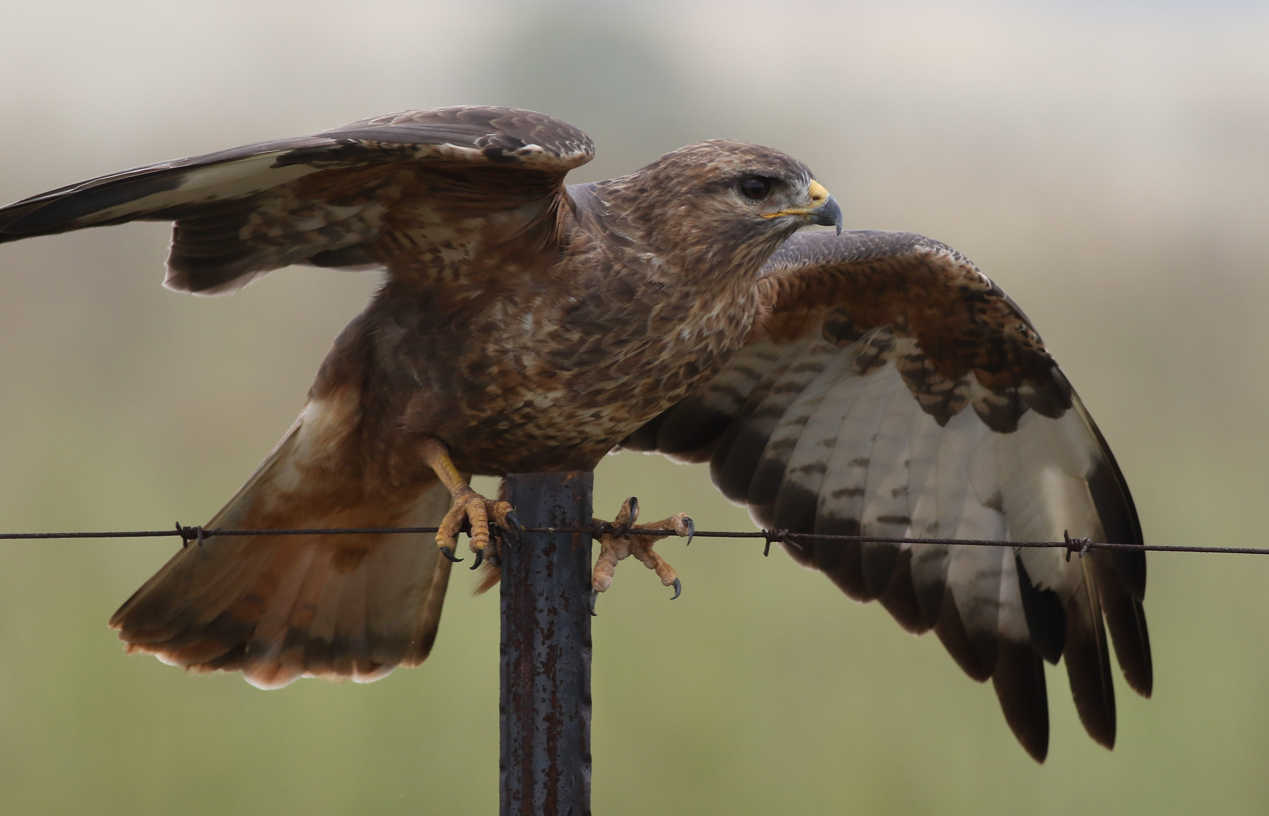 Common Buzzard (Steppe Buzzard), Buteo buteo vulpinus, on a fence along the R42, Gauteng, South Africa